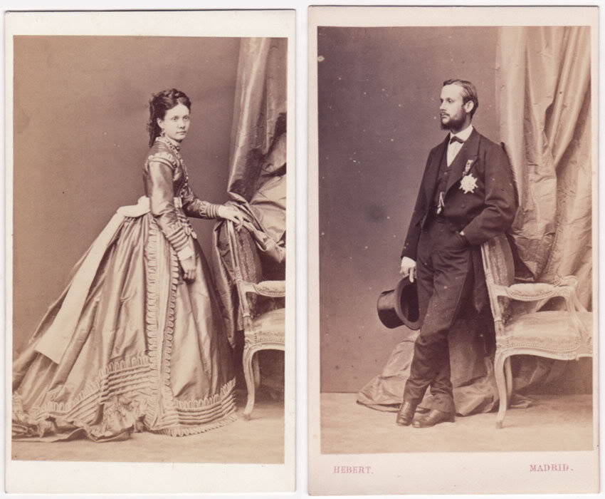 Princess Isabella of Bourbon and Bourbon (1851–1931), Infanta of Spain, and the Prince Gaetan of Bourbon-Two Sicilies (1846-1871)